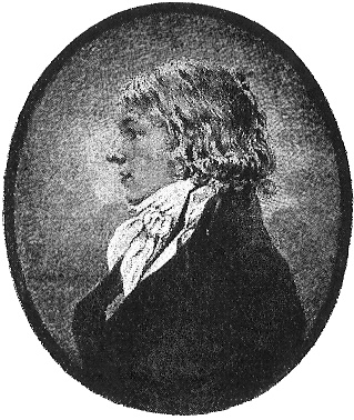 Felix Ivo Leicher (1727–1812) Description Austrian painter Date of birth/death19 May 172720 February 1812Location of birth/deathBílovec, Czech RepublicVienna, AustriaAuthority control GND: 121089401 WP-Person